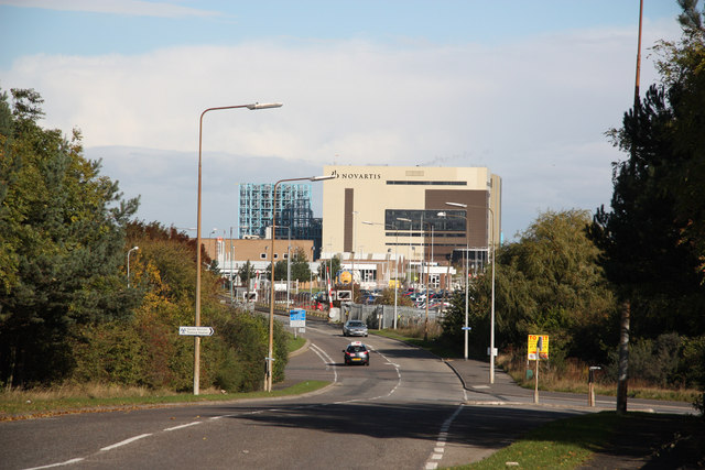 Woad Lane